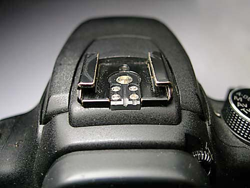 Xeviro wrote "Taken by me with Nikon Coolpix 7900" when he uploaded this photo to the English Wikipedia.